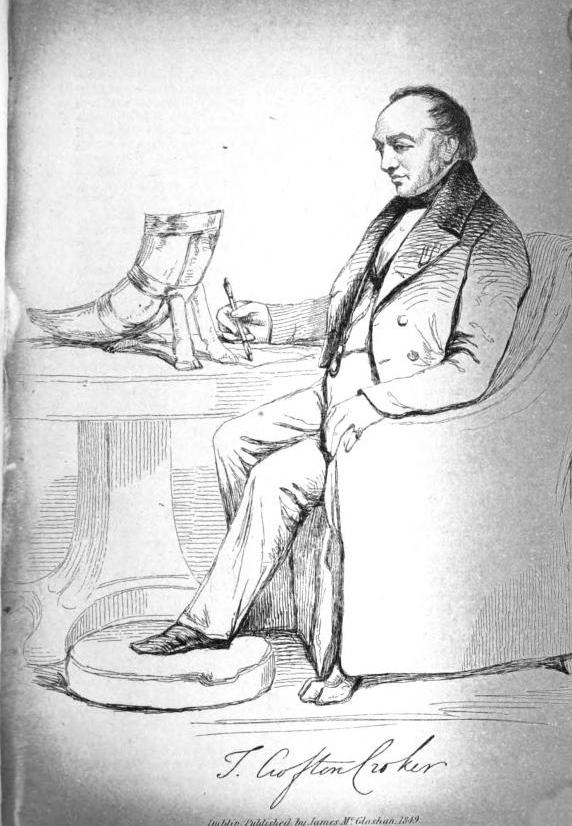 Portrait of T. Crofton Croker seated